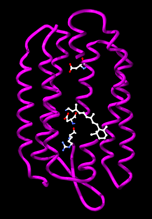 Cutaway view of bacteriorhodopsin from Halobacterium salinarum, with the retinol cofactor and residues involved in proton transfer (Arg82, Asp85, Asp96) shown as ball and stick models.